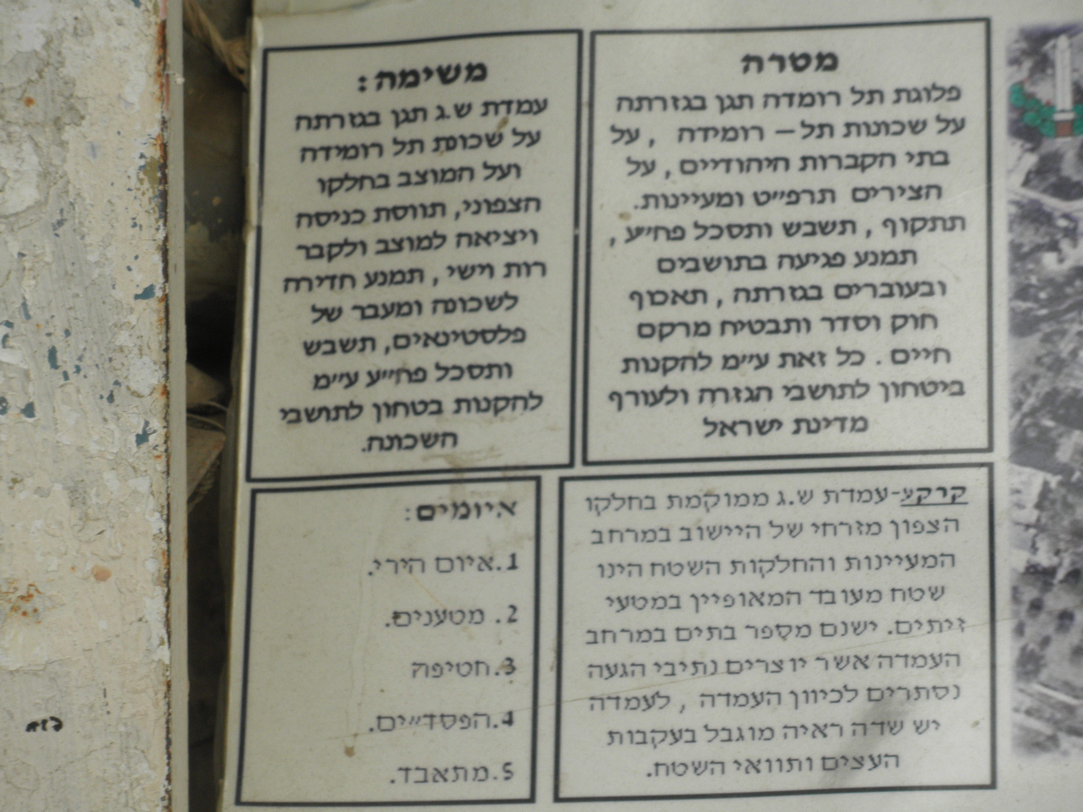 Mission statement on a Military guard post in Tel Rumeida. Mission: The guard will protect the neighborhood…prevent penetration and passage of Palestinians…to provide security for the residents.